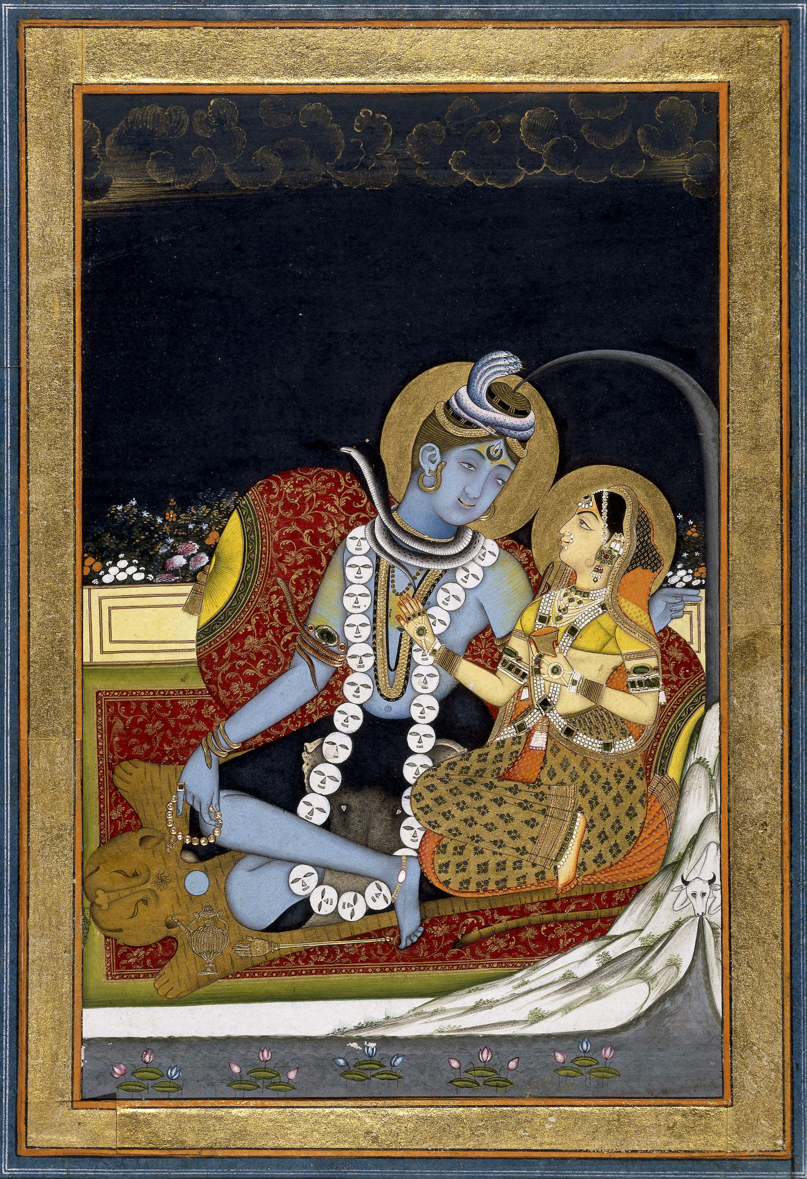 Śiva and Pārvatī seated on a terrace. Jaipur